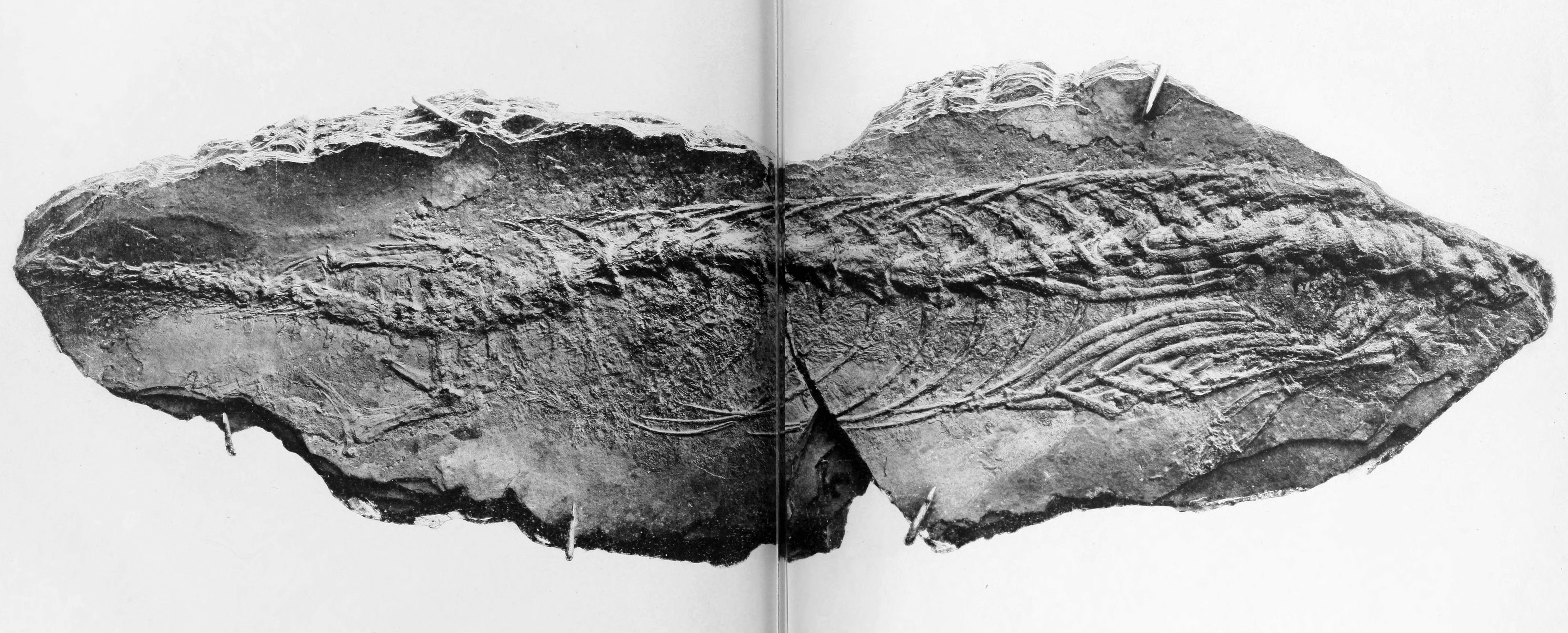 Title: Abhandlungen der Geologischen Bundesanstalt Year: 1852 (1850s) Authors: Geologische Bundesanstalt (Austria); K. K. Geologische Reichsanstalt (Austria) Subjects: Geology; Paleontology Publisher: Wien : Geologische Bundesanstalt Text Appearing Before Image: Prof. A. Kornhuber: Carsosaurus Marchesettii. Text Appearing After Image: Negativ aus der lc. k. Lehr- und Versuchsanstalt für Photographie etc. Abhandlungen der k. k. Ceioi